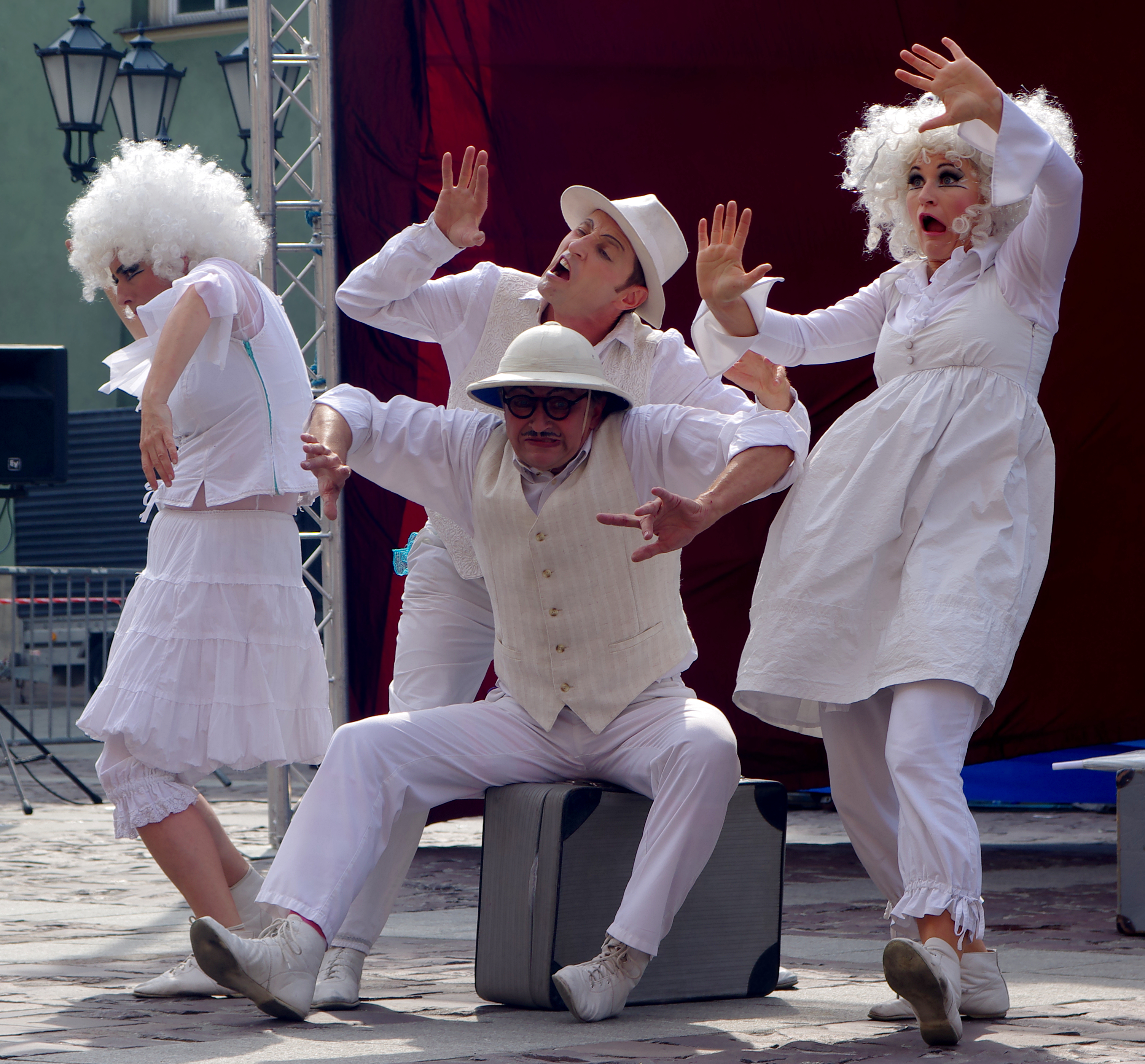 Akt Theatre in the show "In Blue" at 27. ULICA – The International Festival of Street Theatres in Kraków